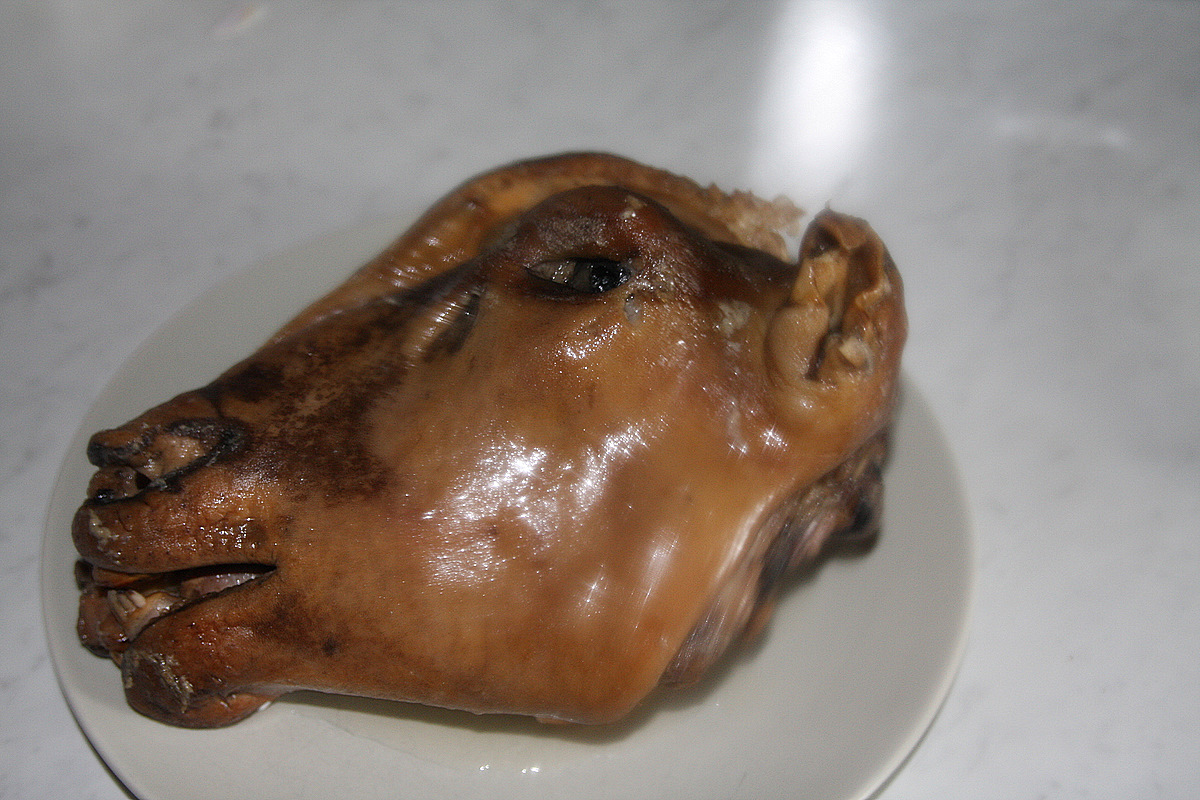 Smalahove Norwegian food